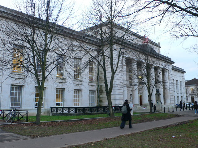 Bute Building, Cathay's Park, Cardiff, Wales